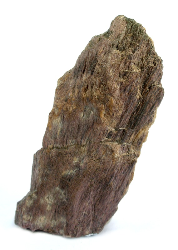 Dumortierite Locality: Alpine County, California, USA (Locality at ) Size: miniature, 5.7 x 2.7 x 1.1 cm Dumortierite Not very attractive, but it is what it is....and is possibly a pseudomorph of dumortierite after tourmaline, in this case. Ex. Chuck Houser Collection.